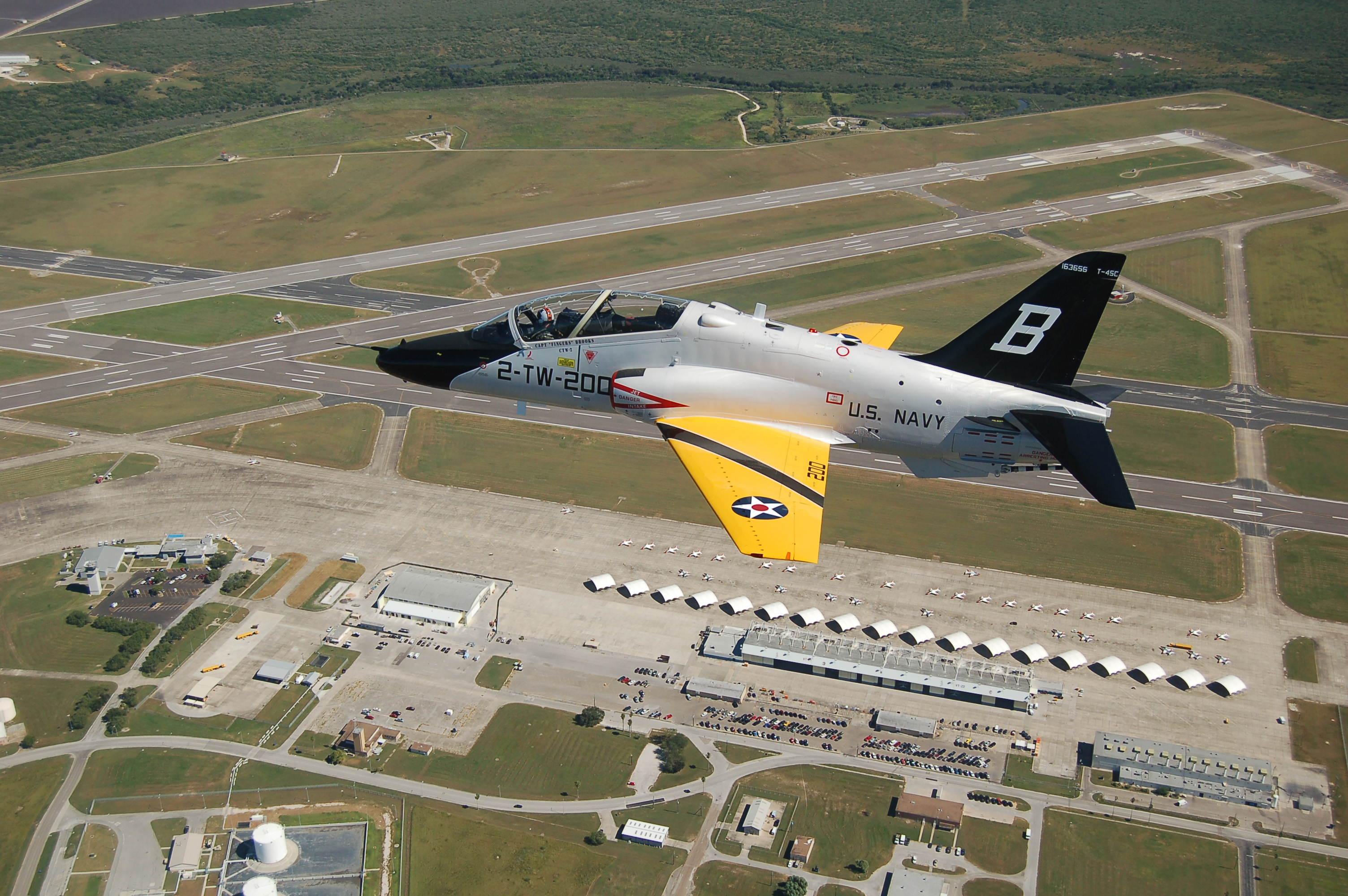 KINGSVILLE, Texas (Oct. 29, 2010) A T-45 Goshawk training aircraft painted in a pre-World War II tactical aircraft paint scheme flies over Naval Air Station Kingsville, Texas. The plane is one of nine training command aircraft being painted in celebration of the Centennial of Naval Aviation. (U.S. Navy photo by Lt. Cmdr. Gabe Pincelli/Released)